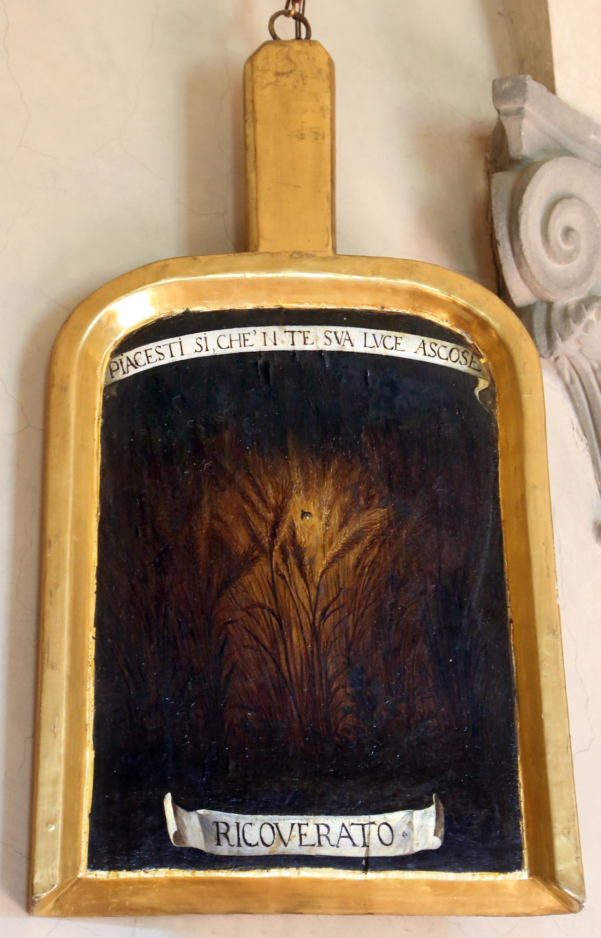 Shovels of Accademici della Crusca